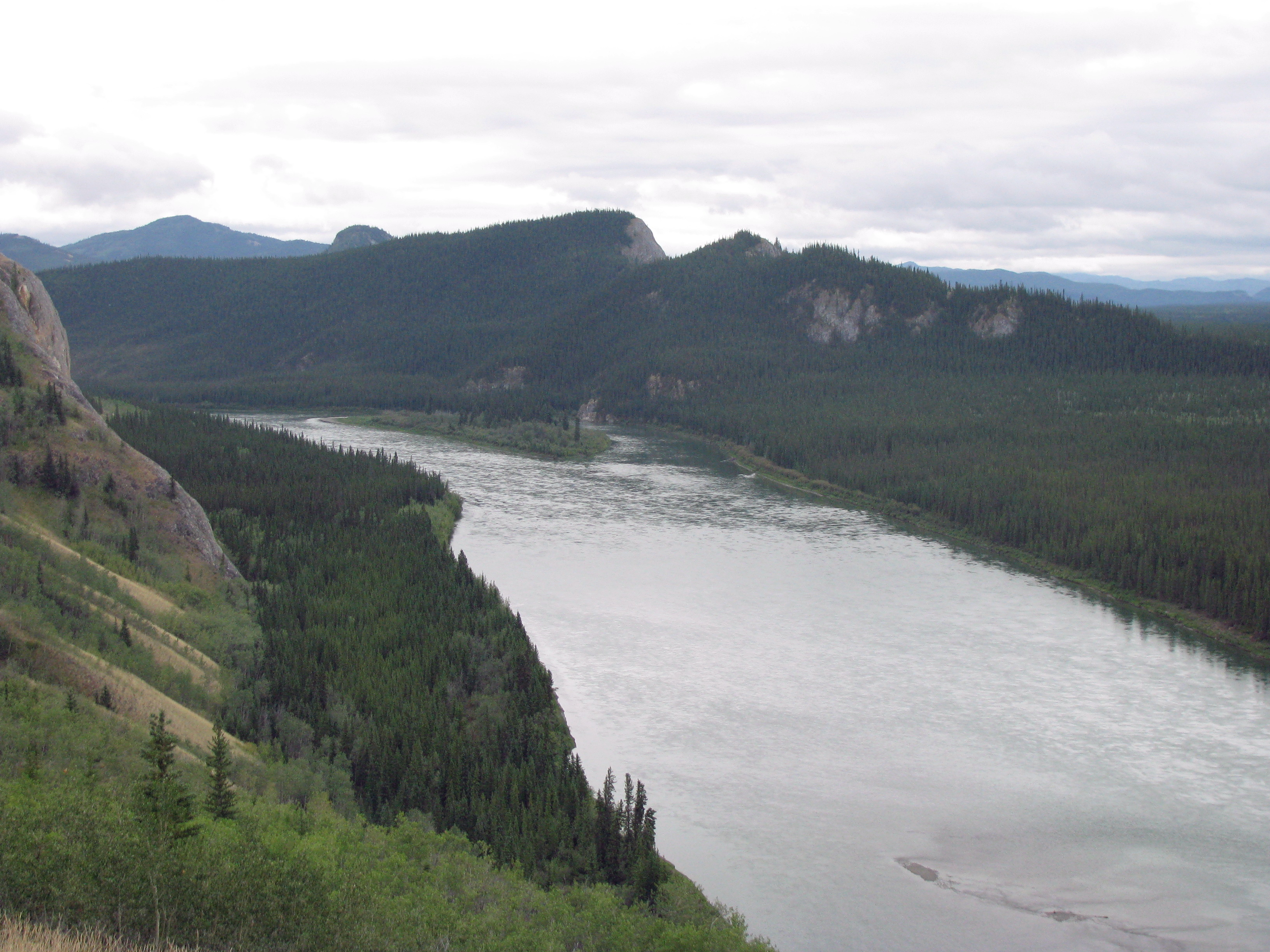 The following is the author's description of the photograph quoted directly from the photograph's Flickr page."Yukon River near Carmacks, Campbell Highway, Yukon, Canada. Photographed 10 August 2009.Photographs taken at site of Columbia Disaster.Joint ©© Arthur D. Chapman and Audrey Bendus. "